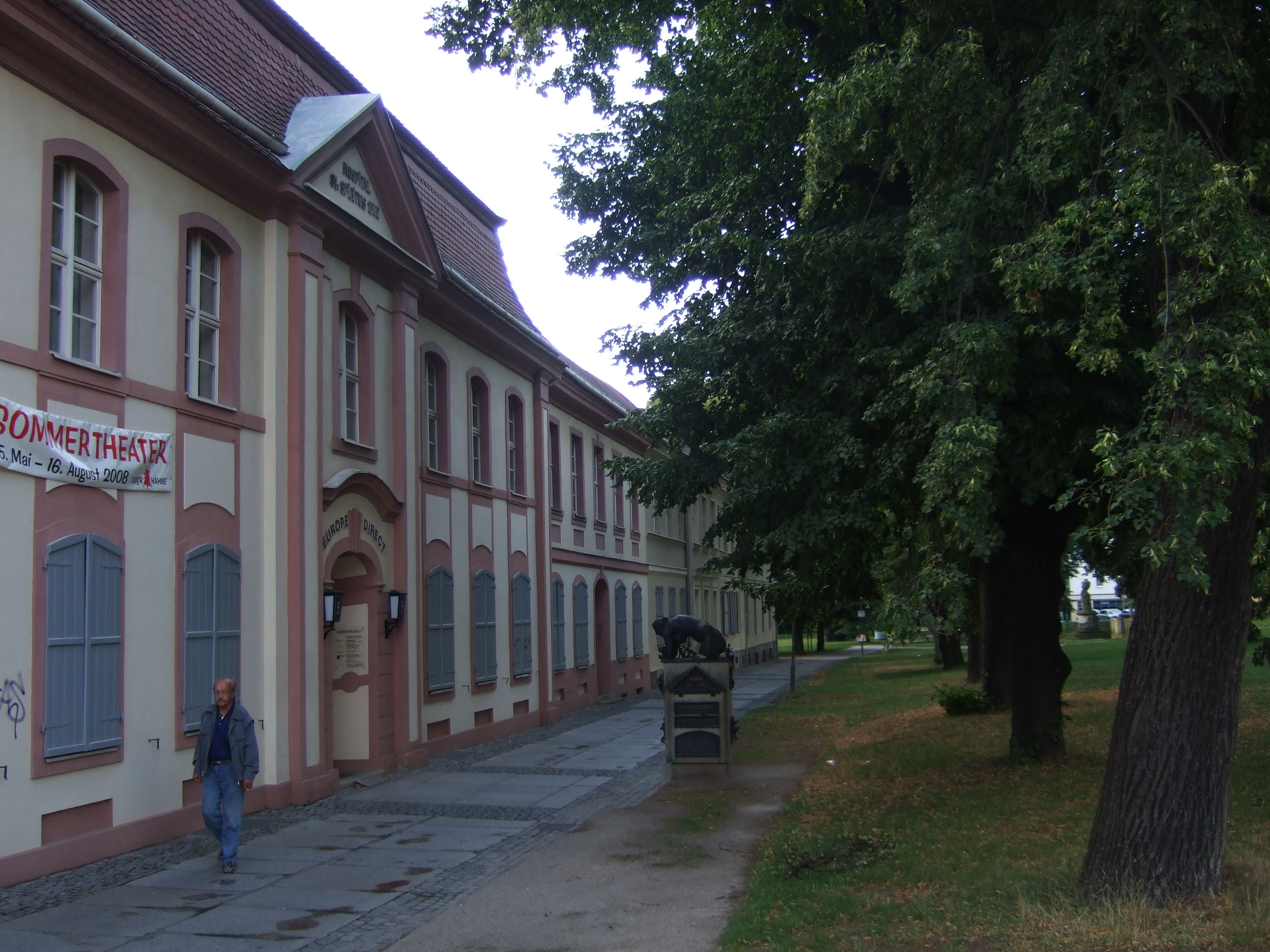 Cultural heritage monument Heilig-Geist-Hospital, today House of Arts in Frankfurt (Oder), Germany